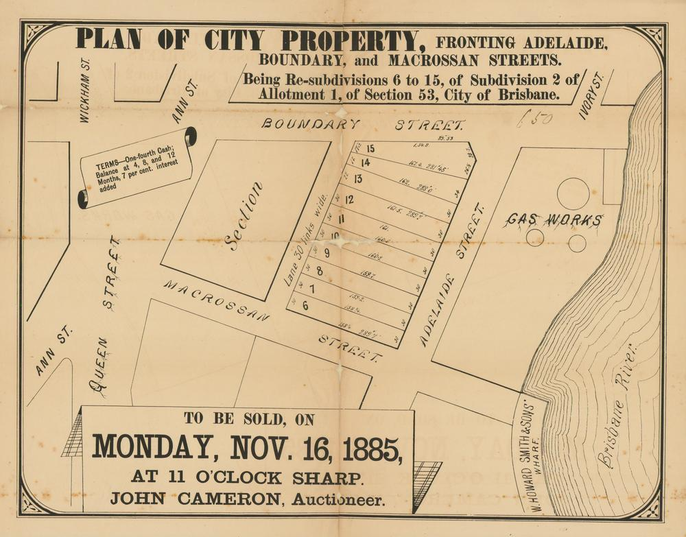 Estate map of property fronting Adelaide, Boundary and Macrossan Streets, Brisbane, Queensland, 1885 Estate map showing allotments to be sold 16th November 1885 by John Cameron, auctioneer. The allotments covered an area adjacent to Adelaide Street and Macrossan Street in Brisbane.